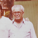 Yeruham Zeisel